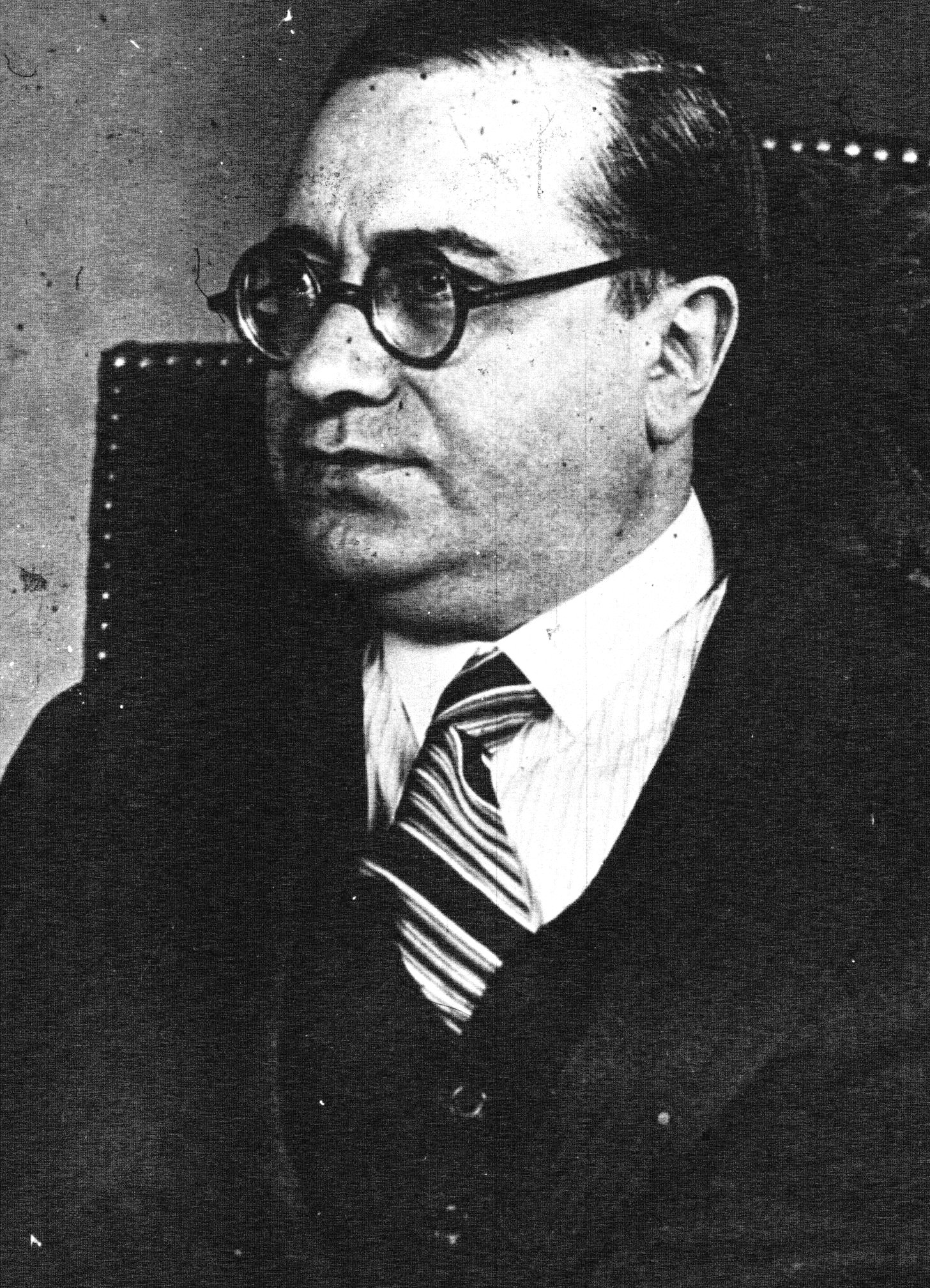 Luis Araquistáin's portrait